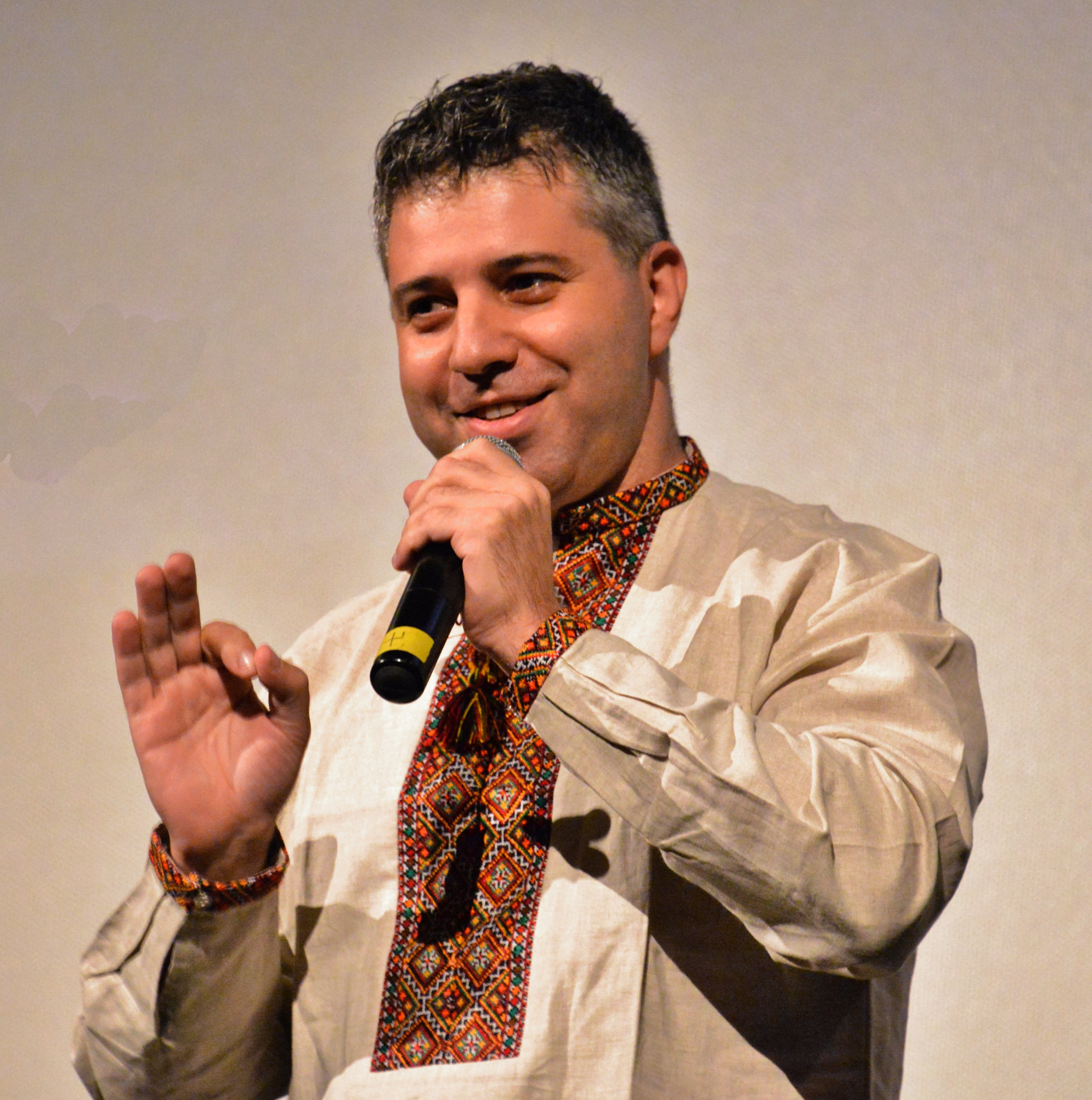 Film conductor Eugene Afineevsky at the TIFF festival, Toronto 2015